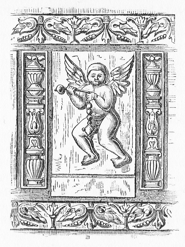 Terracotta amorino moulded decoration at Sutton Place, Guildford, 1520's.